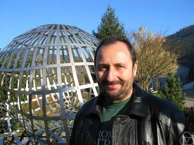 Igor Shparlinski, Oberwolfach 2004